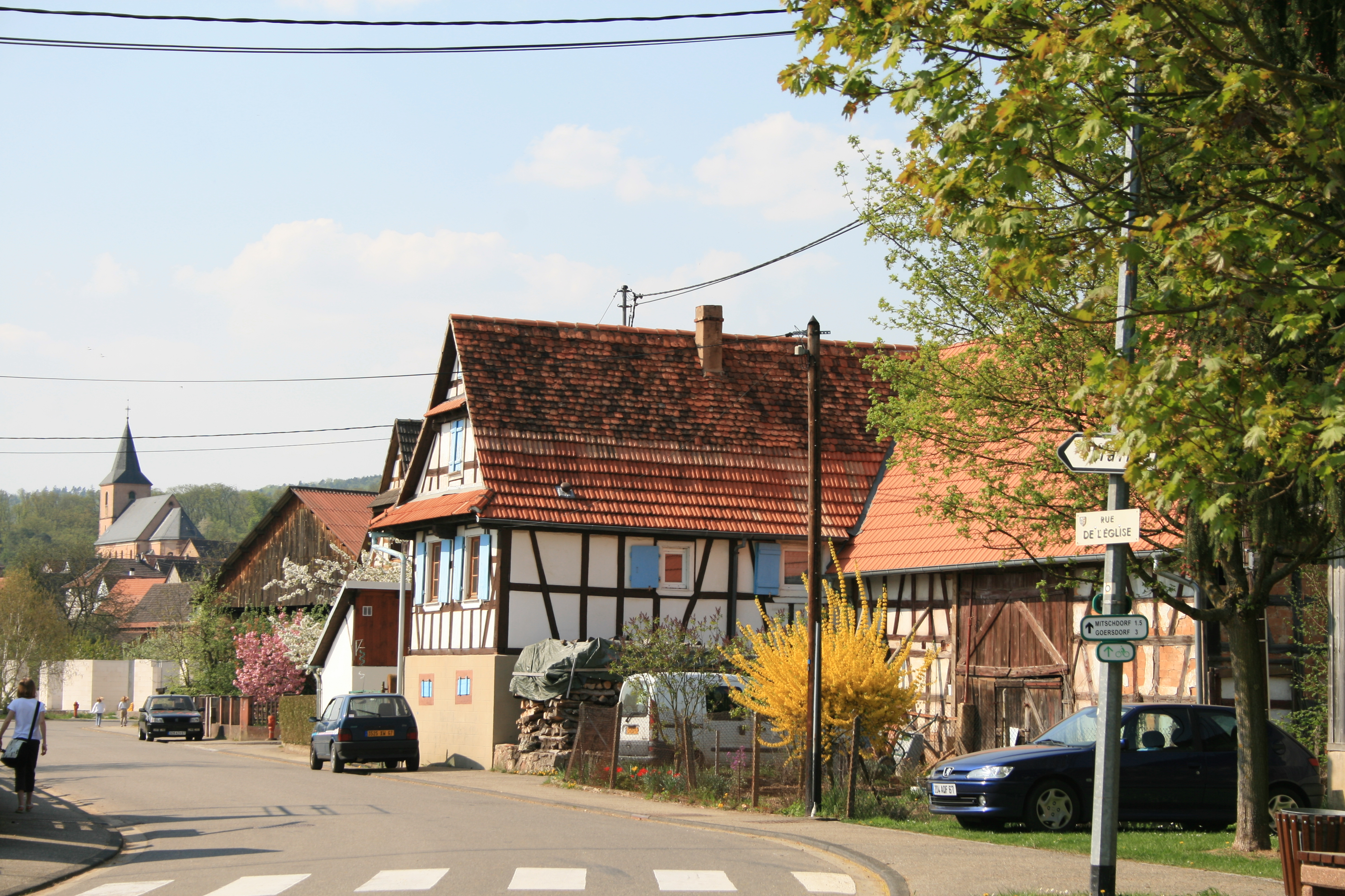 Preuschdorf, Alsace